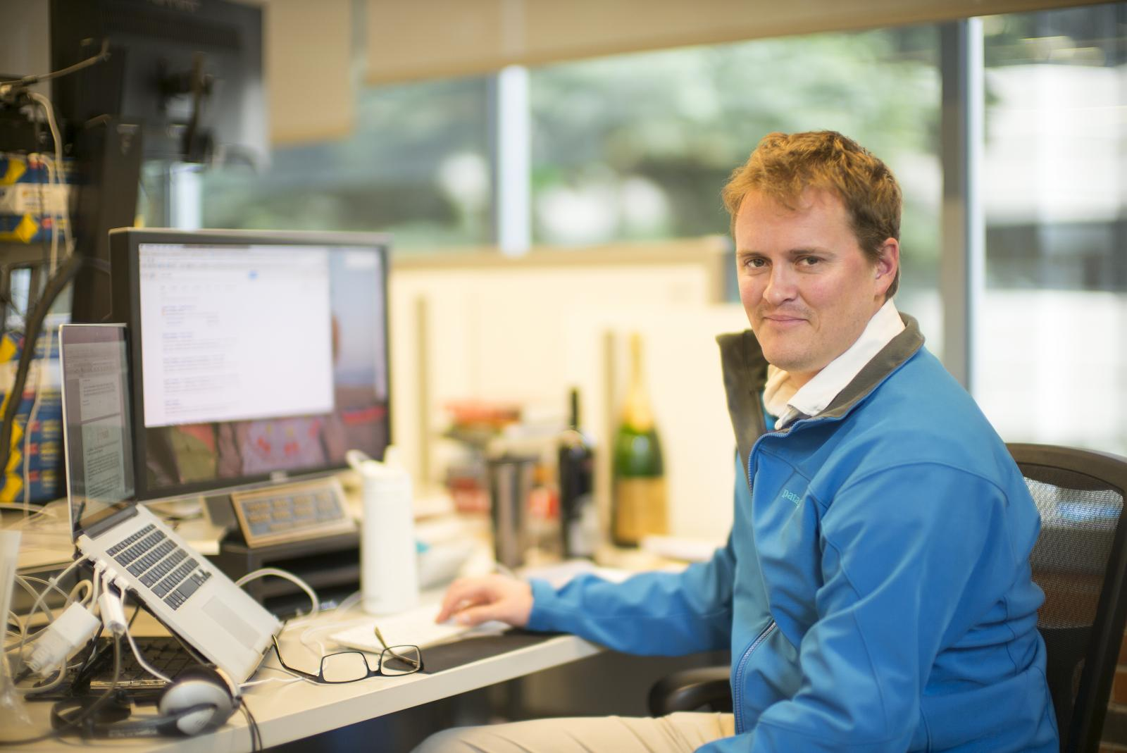 Otis Chandler, founder of